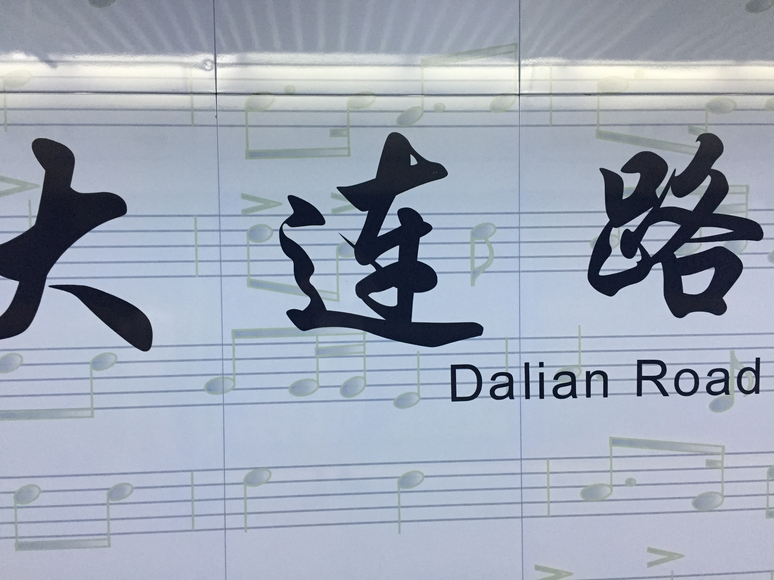 name sign of Dalian Road of Shanghai metro line 12